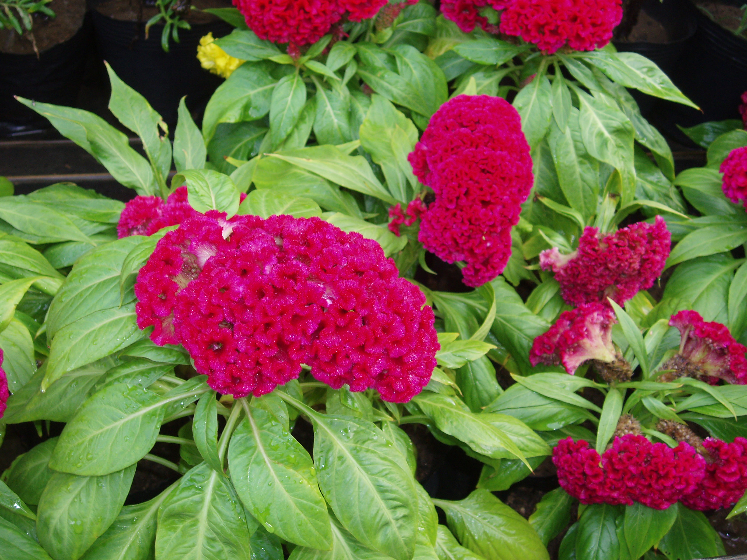 Cockscomb flowers